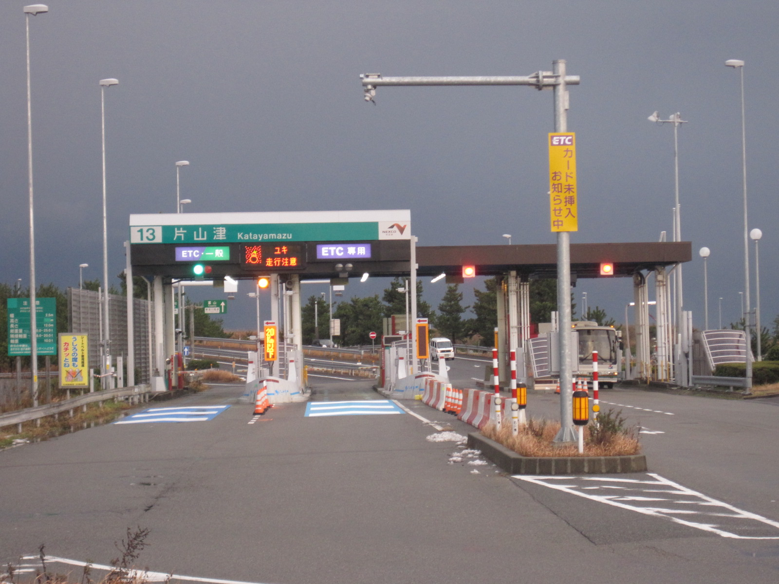 Katayamazu Inter Change (Hokuriku Expressway)